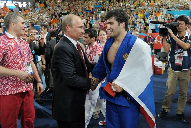 Vladimir Putin congratulates Tagira Haybulaeva with victory at the 2012 Olympics.